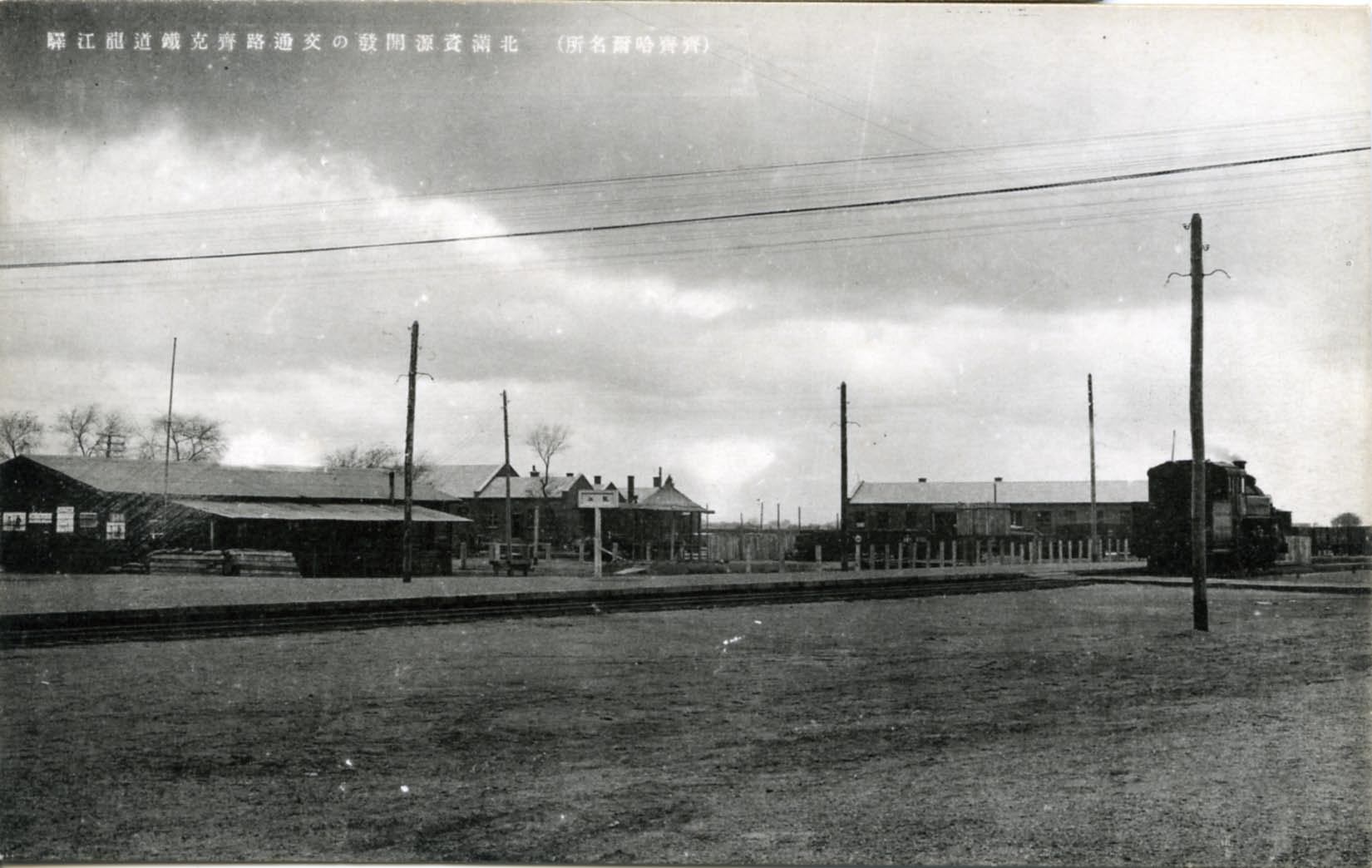 Old Longjiang station